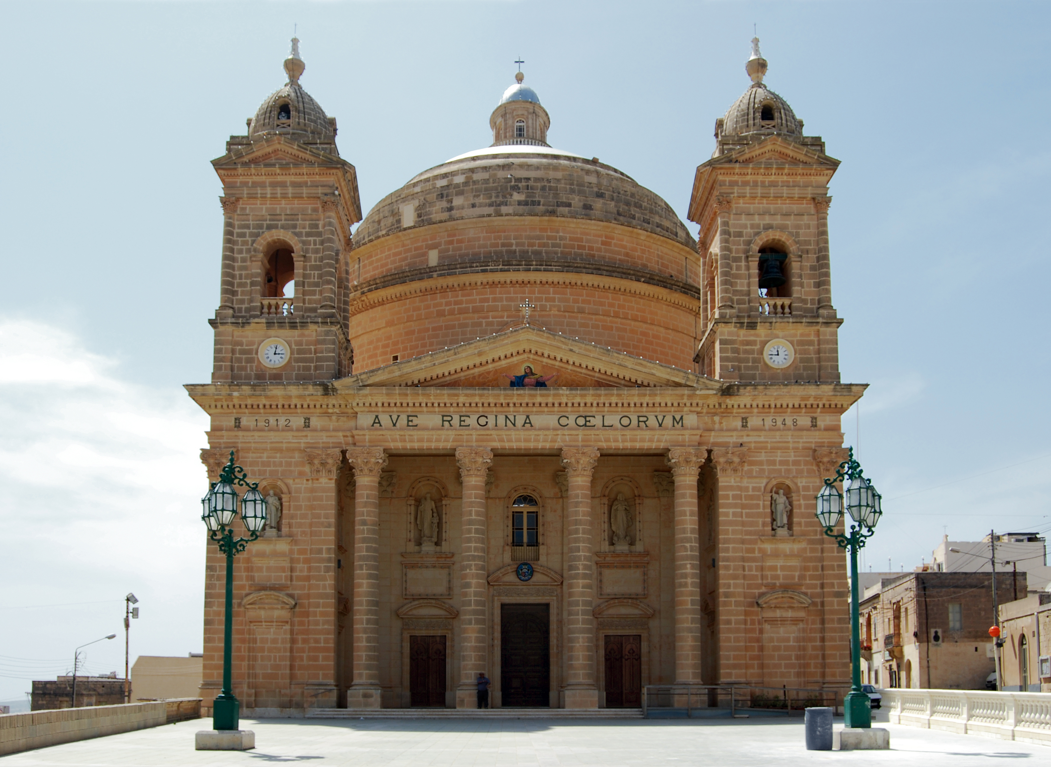 The church of Mġarr, Malta.